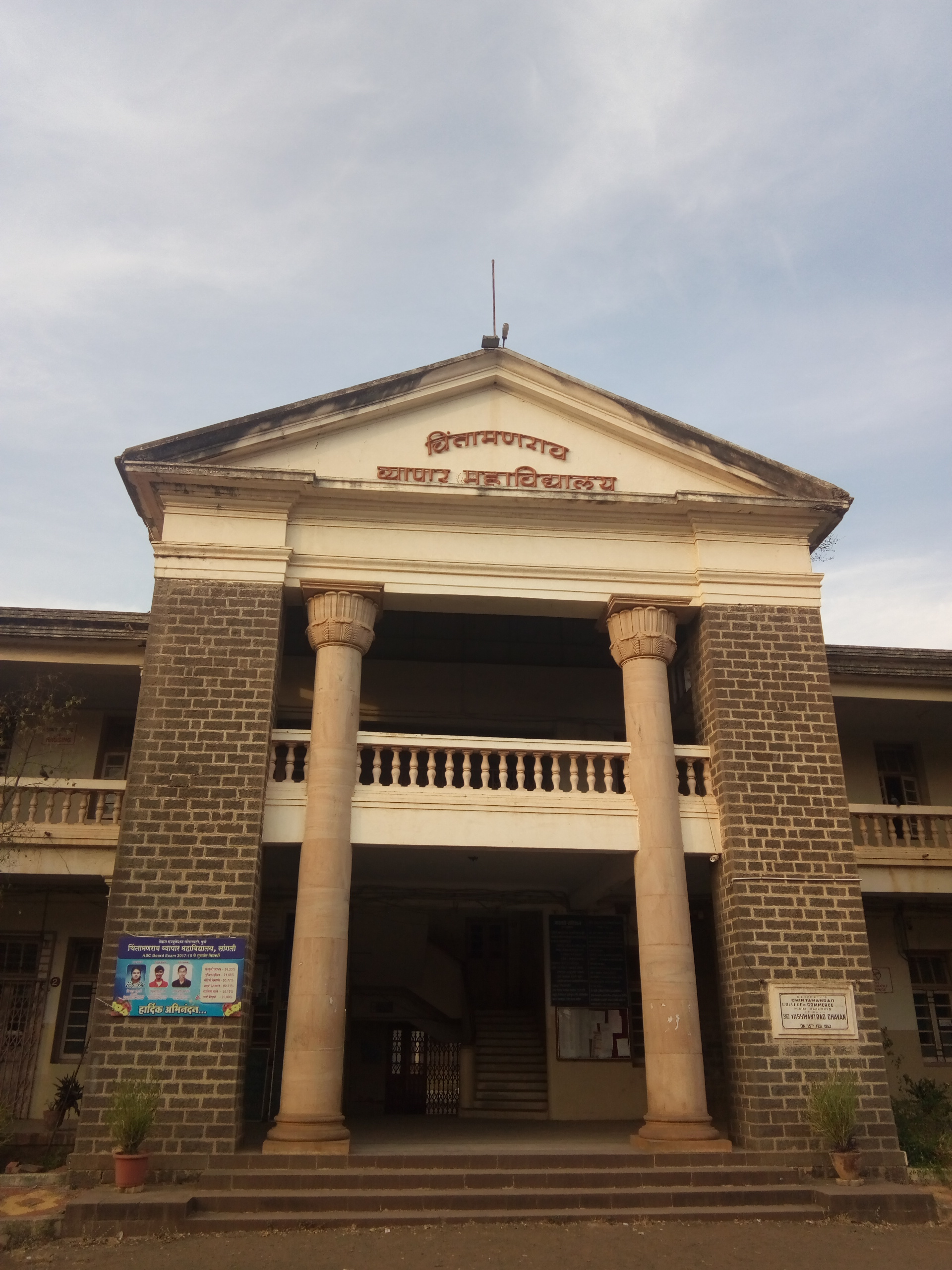 Wikipedia workshop in progress